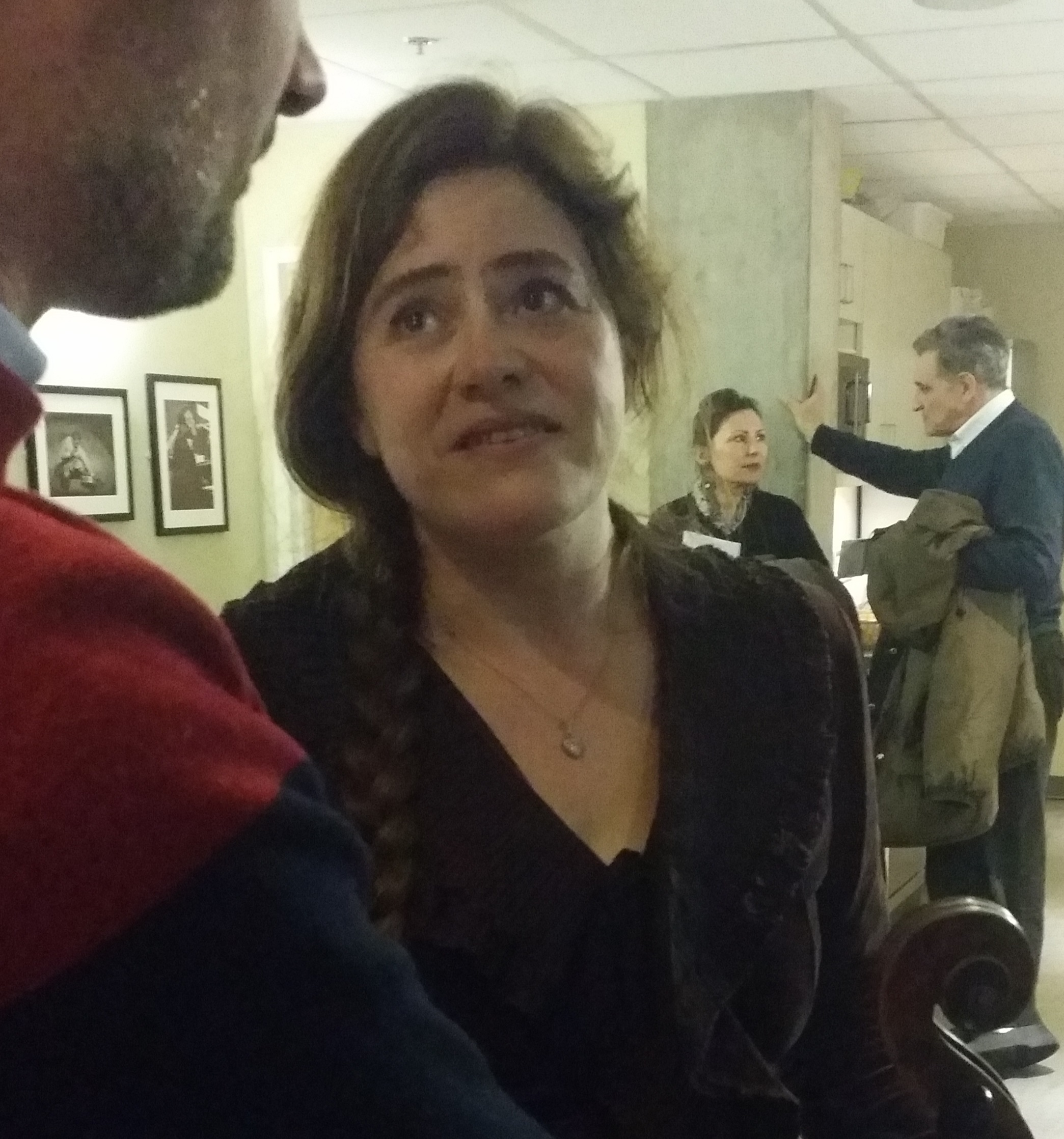 Emmanuelle Bertrand photographed in Montréal , Québec, Canada at the MBAM Bourgie Hall.